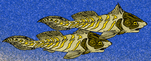 The Ptyctodont placoderm, Rhamphodopsis threiplandi, of Mid Devonian Europe (C) Stanton F. Fink